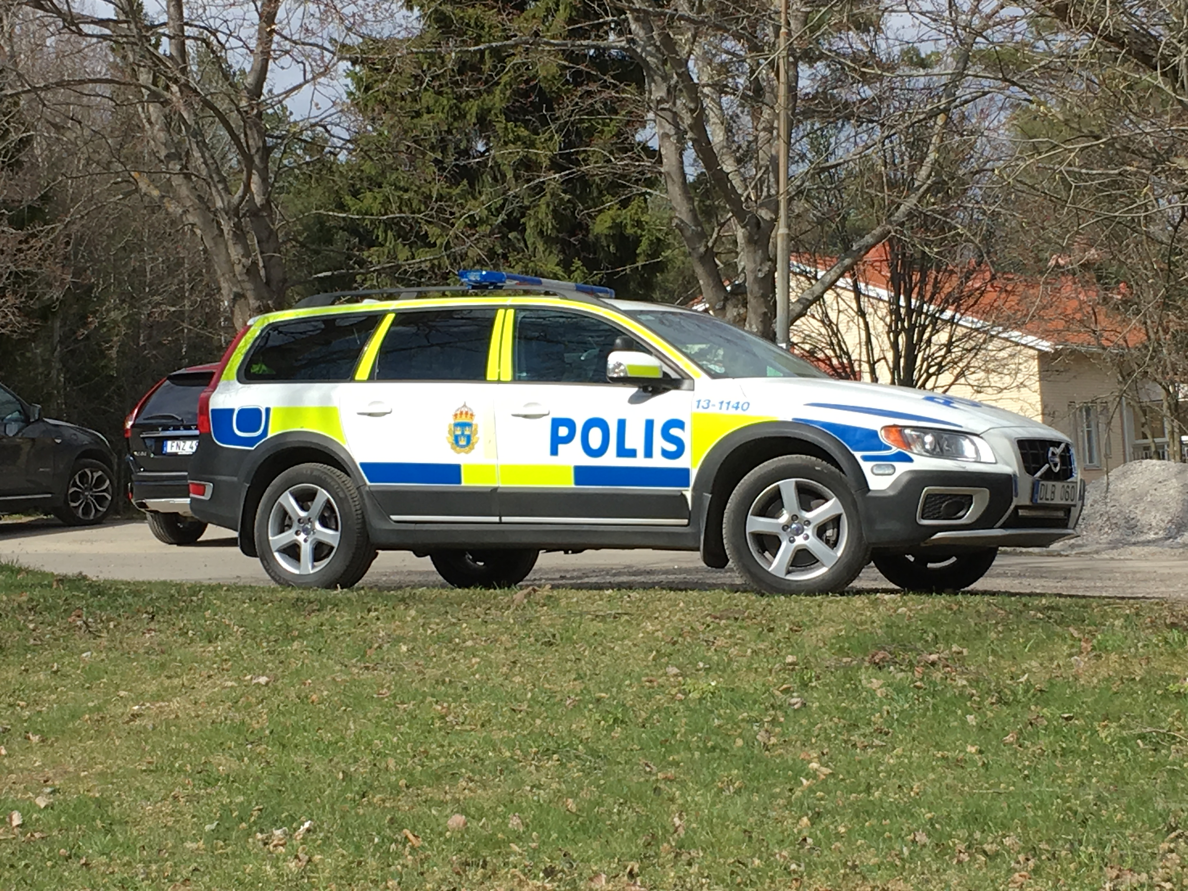 Volvo XC70 police car in Sundsvall, Sweden